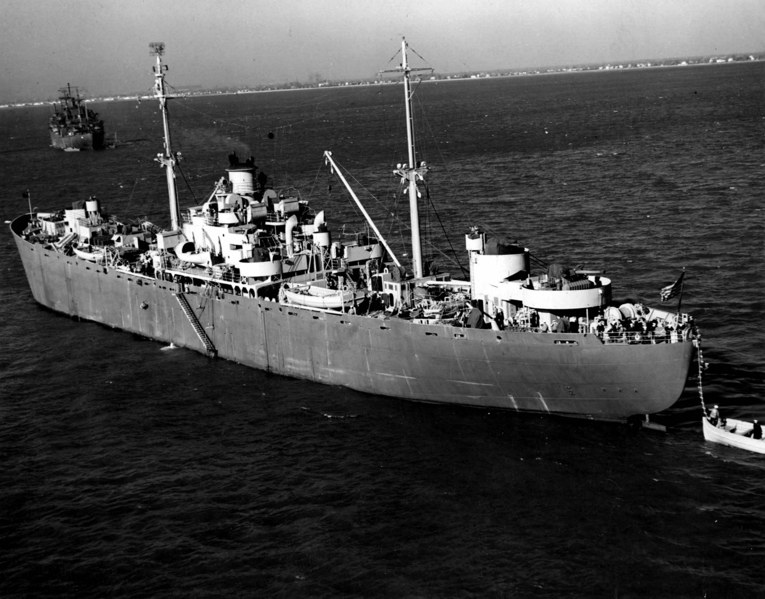 Overhead and port stern view of USS Mindanao (ARG-3), 23 November 1943, at Hampton Roads, Virginia. United States Maritime Commission photo from the collections of the US National Archives and US National Archives Photo #. 80-G-89075, a US Navy photo now in the collections of the US National Archives.